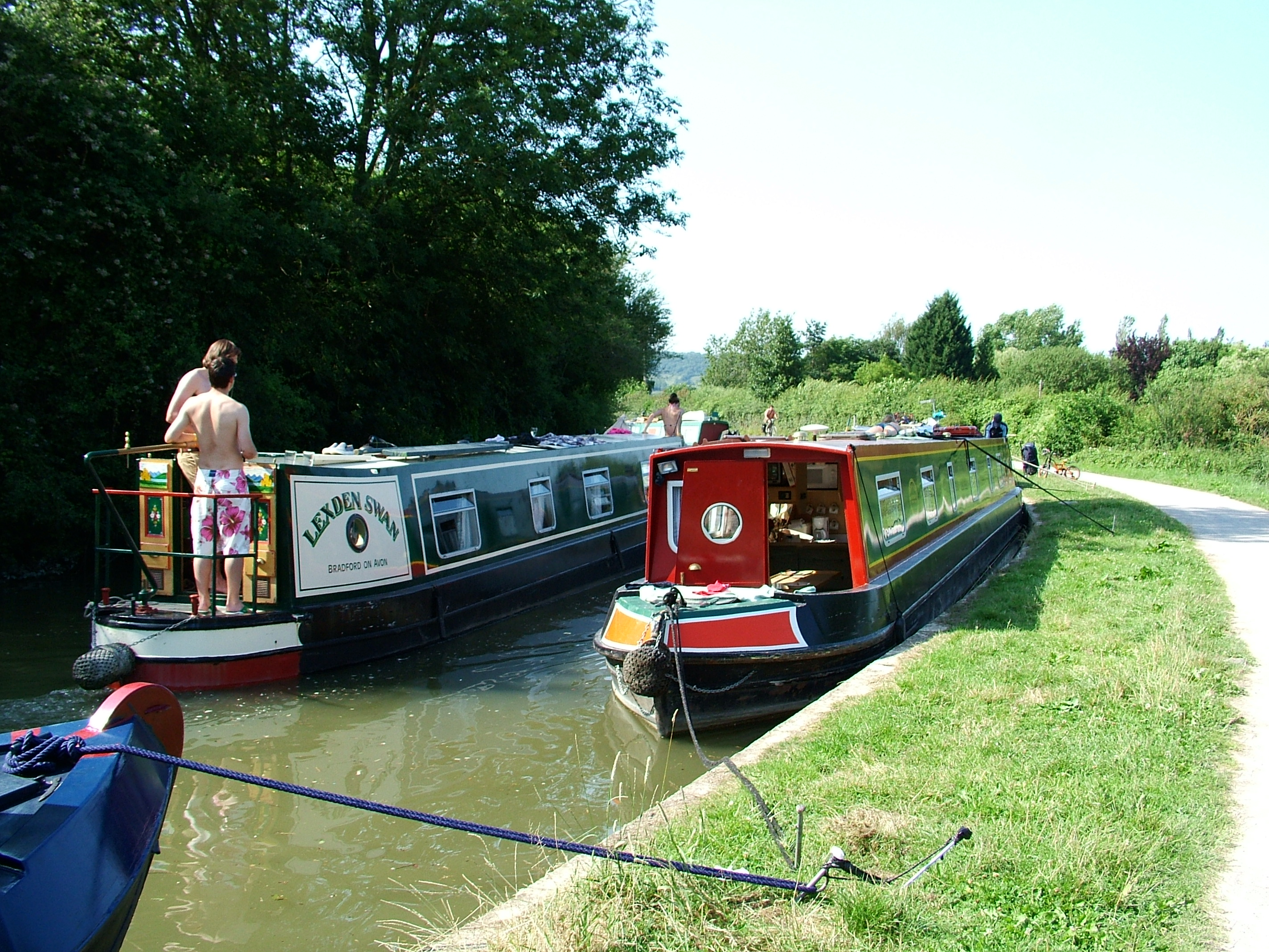 Modern Narrow Boats. LEXDEN SWAN Length 14.03 metres - Beam 2.08 metres Metal hull, power of 35BHP. Registered with British Waterways number 50244